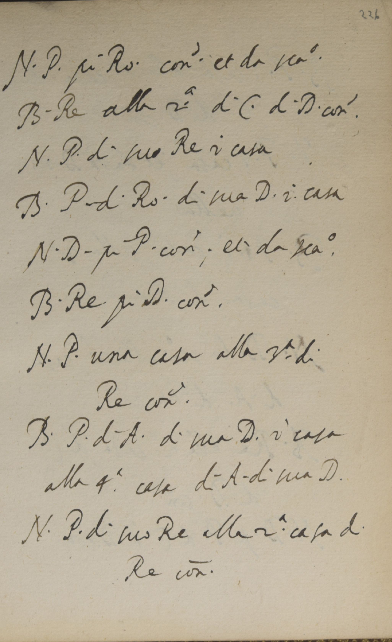 "Trattato del Nobilissimo et Militare Essercitio de Scacchi nel Quale si Contengono Molti Bellissimi Tratti et la Vera Scienza di Esso Gioco/Composto"